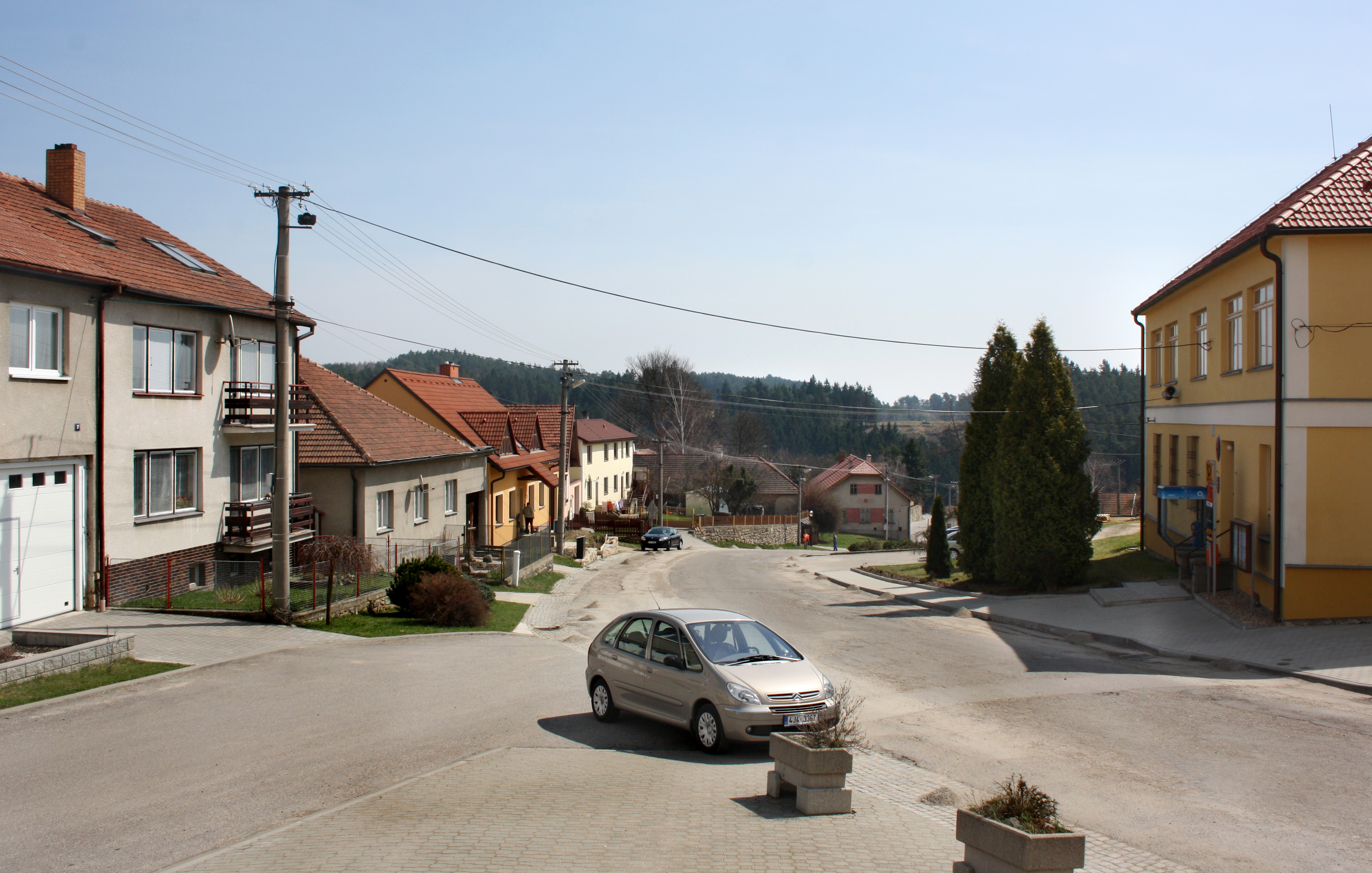 Main square in Uhřínov